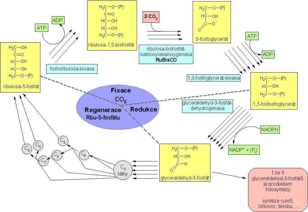 Calvin cycle